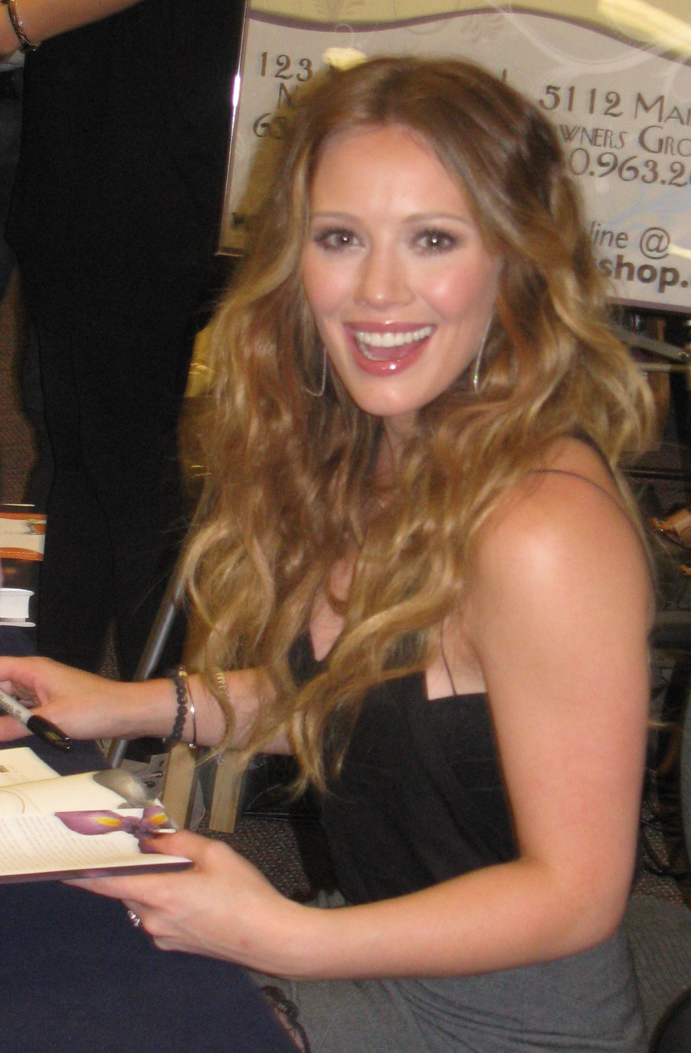 Hilary Duff signing copies of her book Elixir at Anderson's Bookshop in Naperville, IL.